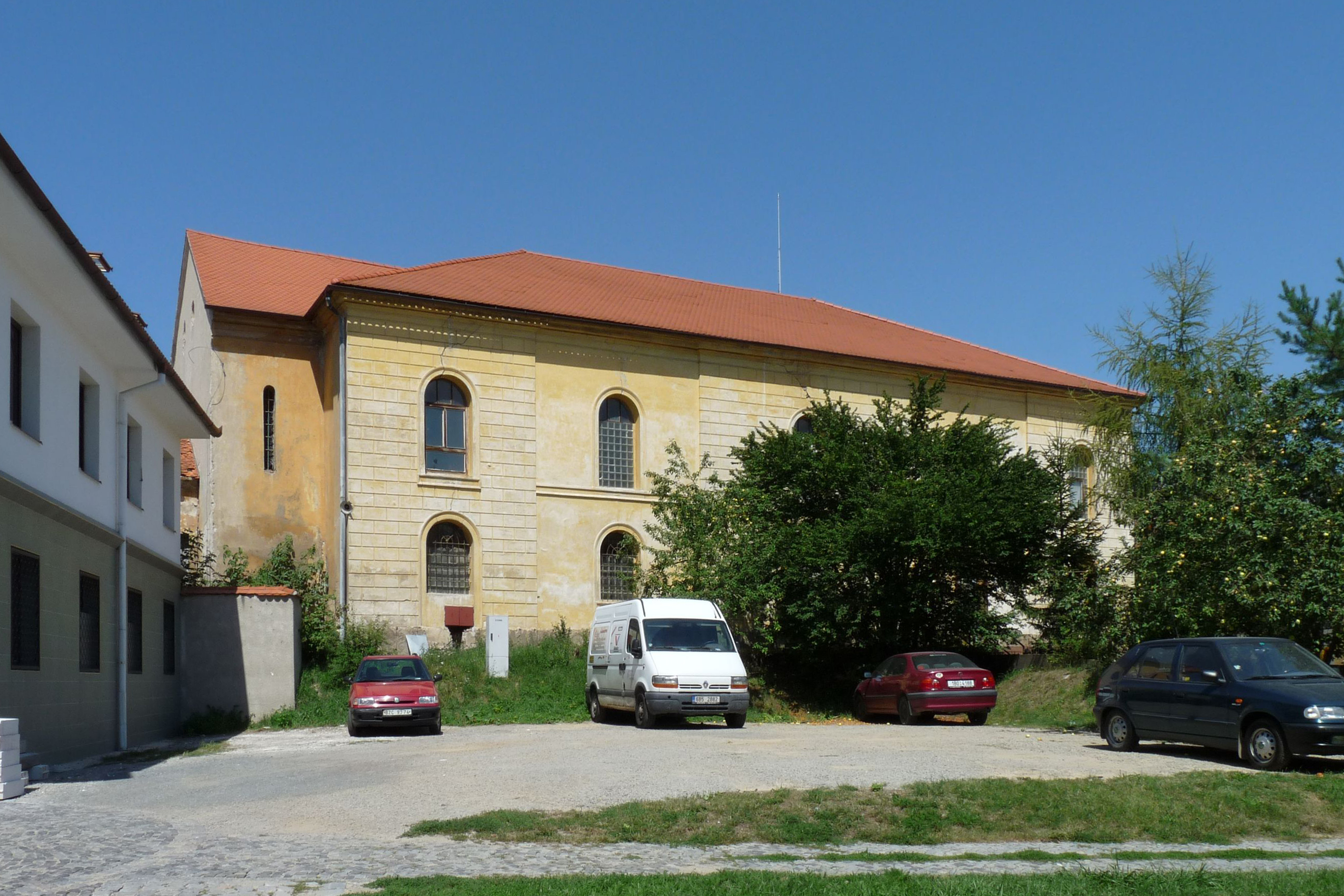 Former synagogue in the town of Ivančice, Brno-Country District, Czech Republic.